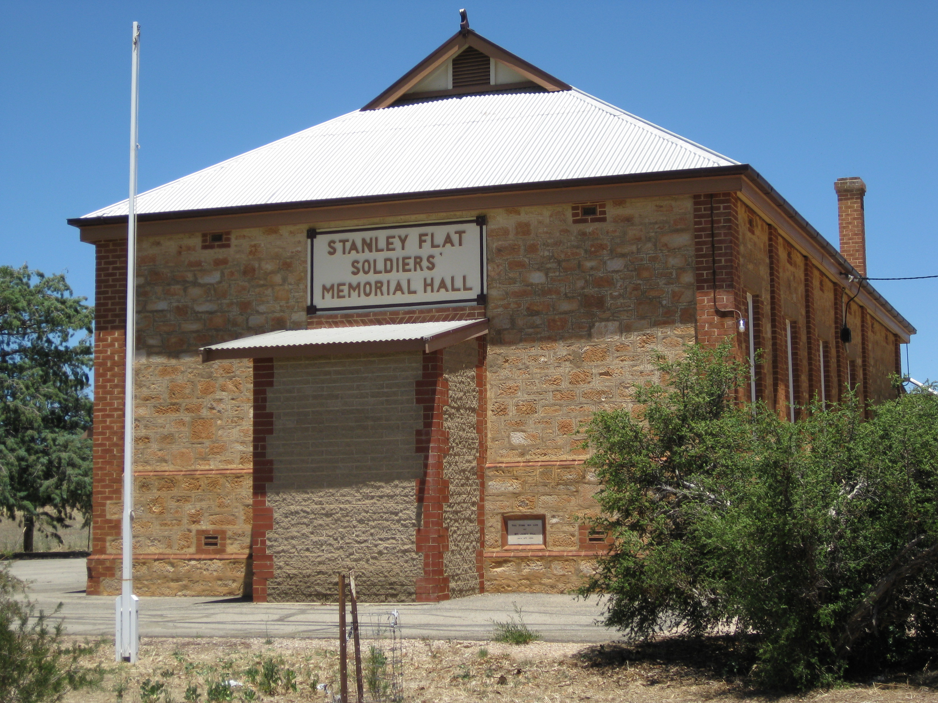 Soldiers memorial hall, located at Stanley Flat in the Clare Valley, South Australia.